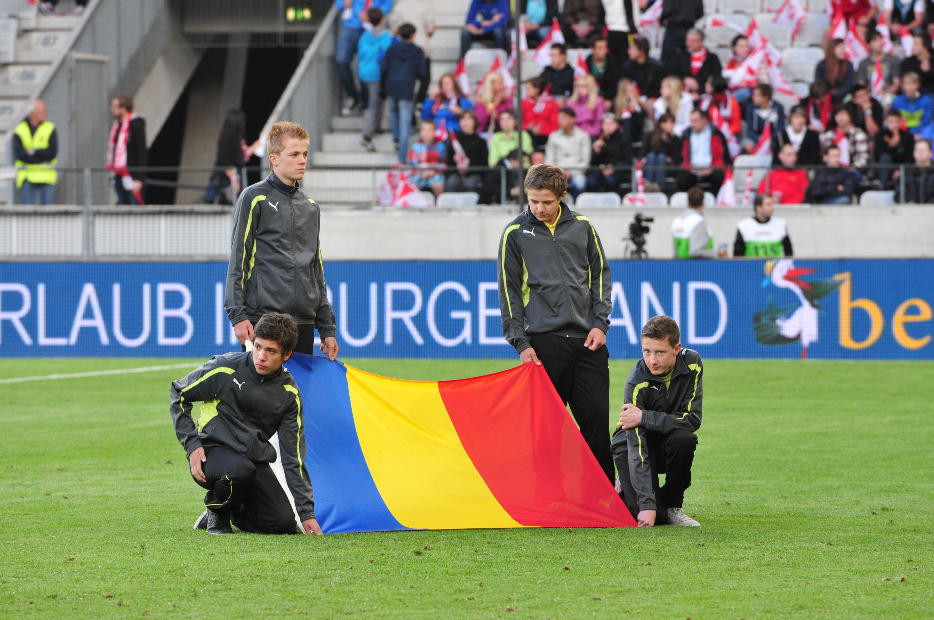 Exhibition game Austria vs. Romania at 5st. June 2012